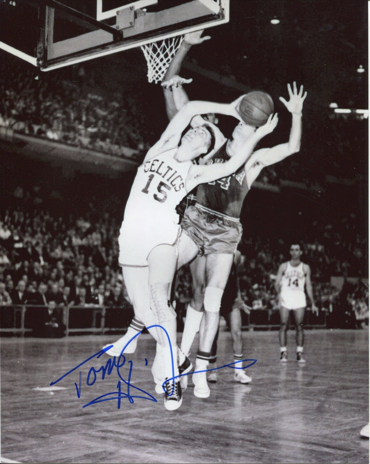 Boston Celtics player Tom Heinson (#15), catching the ball during a game v. Philadelphia. At backgrond, teammate Bob Cousy (#14)